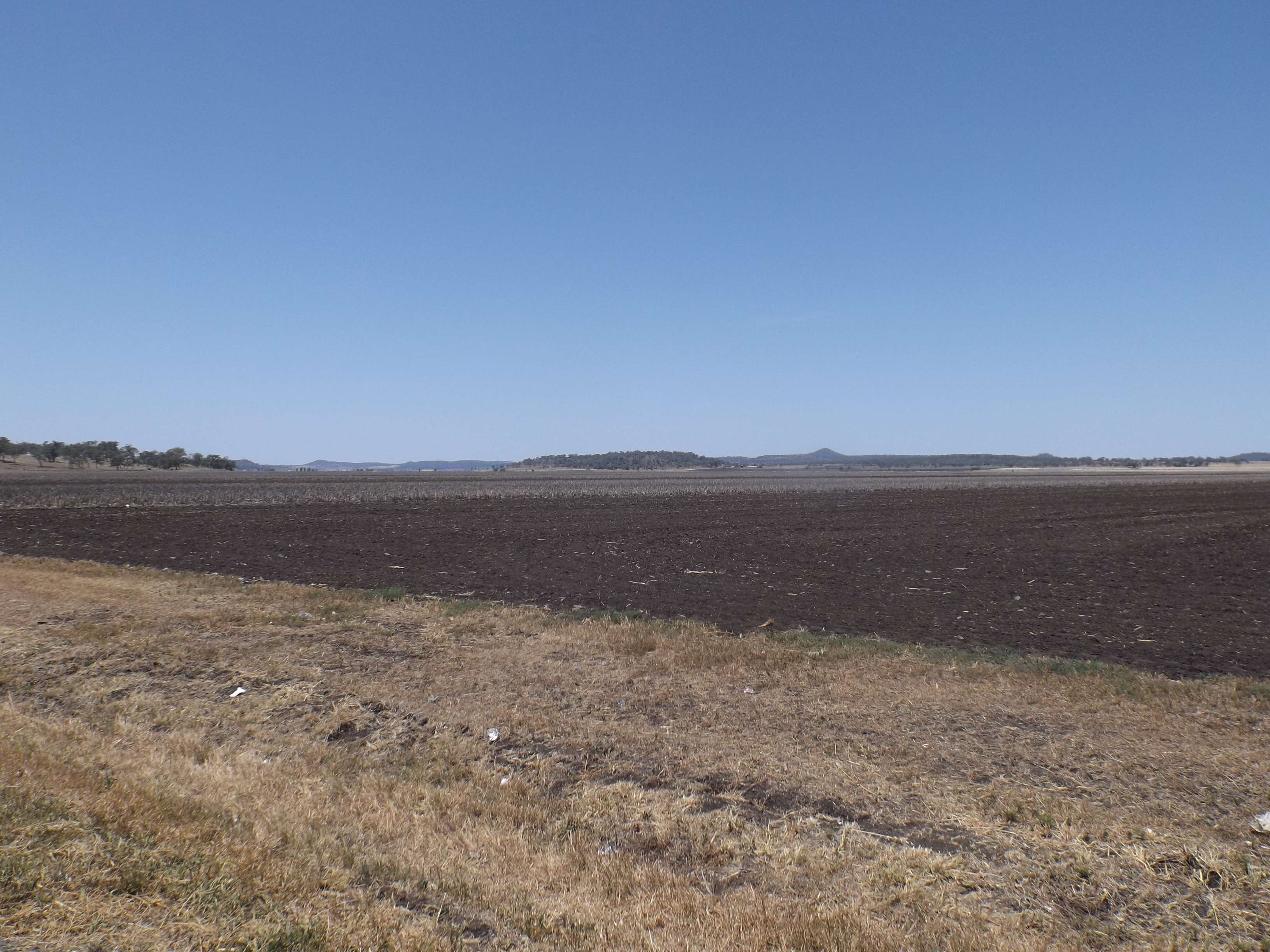 Photo of fields at Mount Tyson, Queensland, Australia.